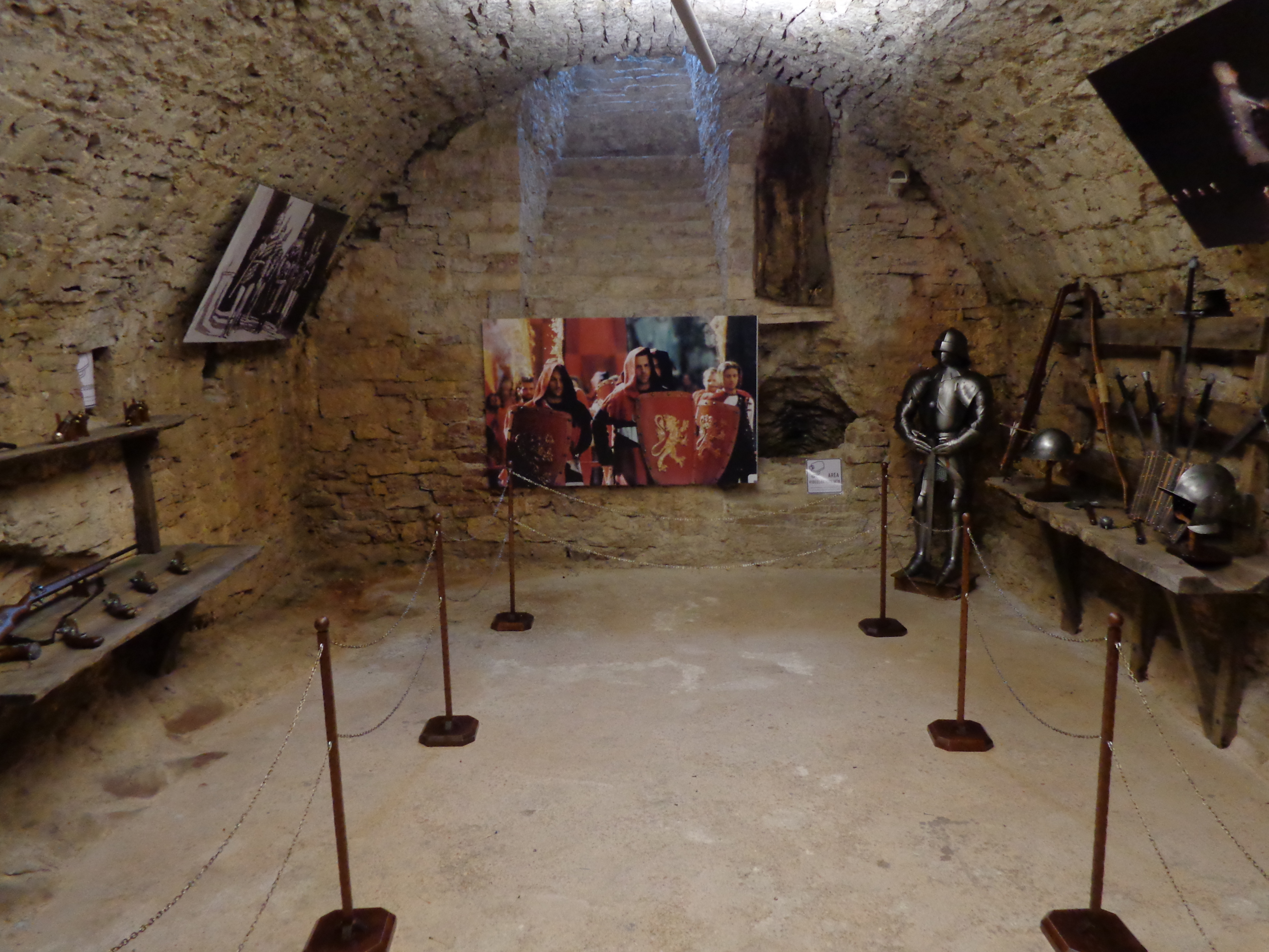 Rocca Maggiore (Assisi)